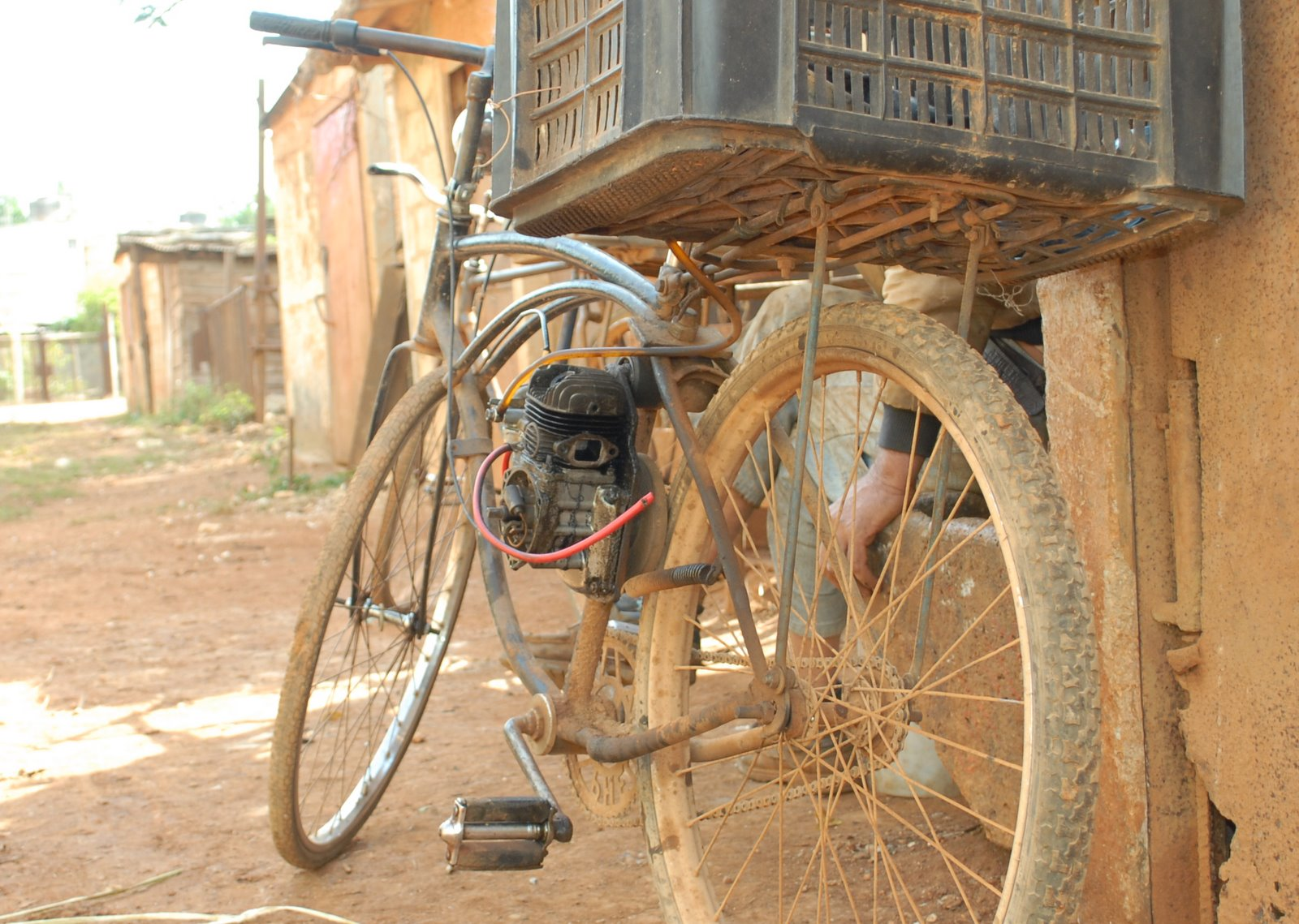 Cuban riquimbili, or improvised motorized bicycle. January 14, 2009.